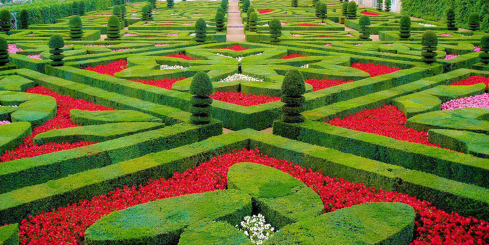 The château de Villandry, gardens